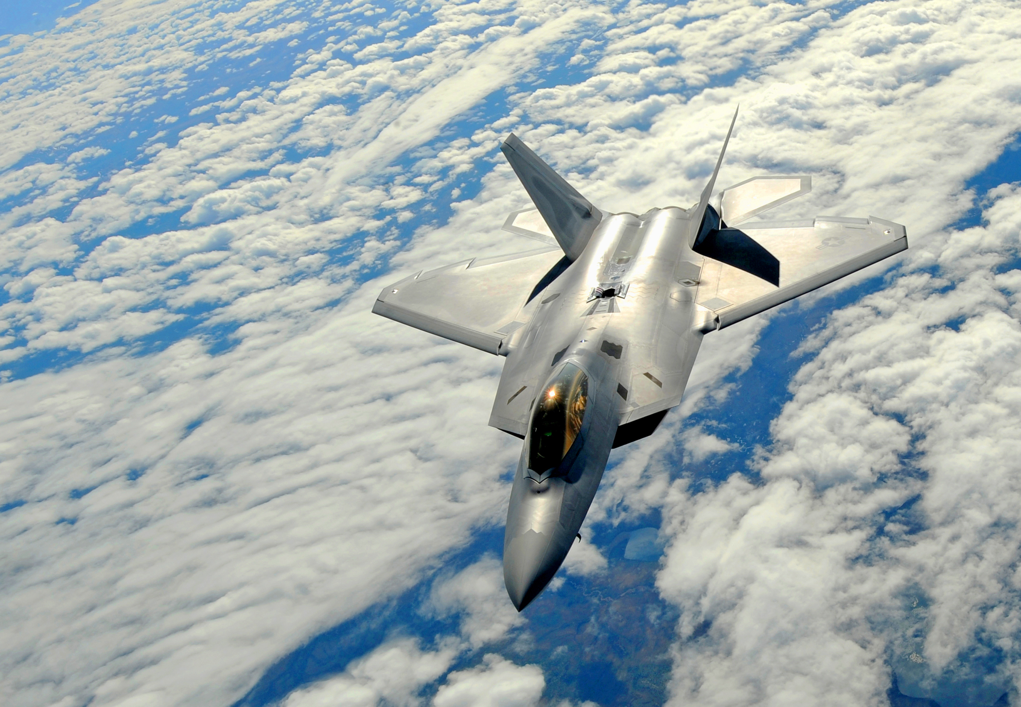 An F-22 Raptor from Elmendorf Air Force Base descends after refueling over Alaska May 26.